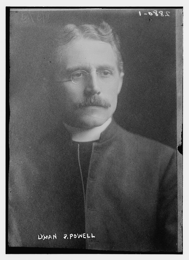 Bain News Service,, publisher. Lyman Powell [between ca. 1910 and ca. 1915] 1 negative : glass ; 5 x 7 in. or smaller. Notes: Title from unverified data provided by the Bain News Service on the negatives or caption cards. Forms part of: George Grantham Bain Collection (Library of Congress). Format: Glass negatives. Repository: Library of Congress, Prints and Photographs Division, Washington, D.C. 20540 USA, General information about the Bain Collection is available at Persistent URL: Call Number: LC-B2- 2880-1